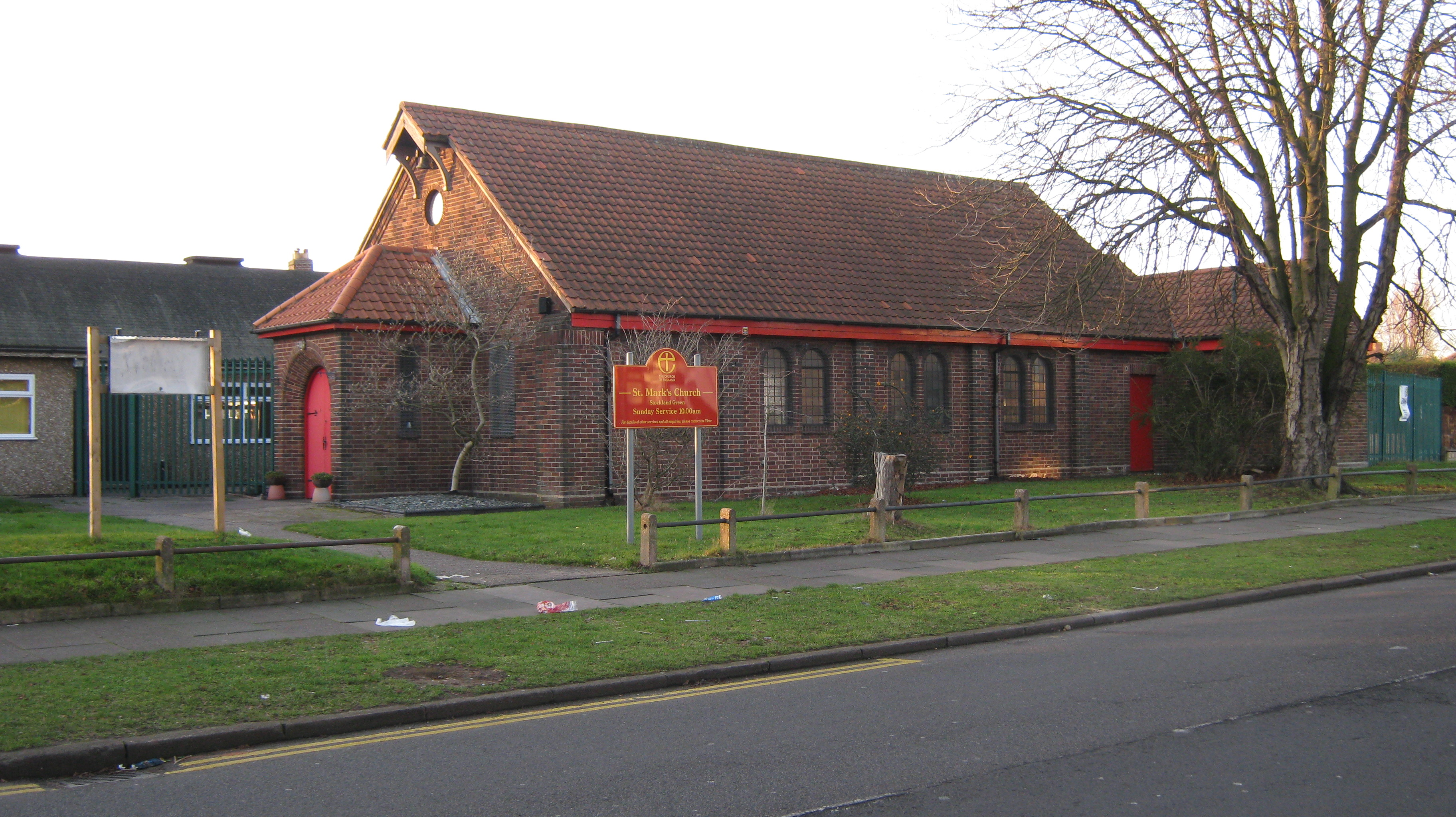 St Mark's Church of England, Short Heath